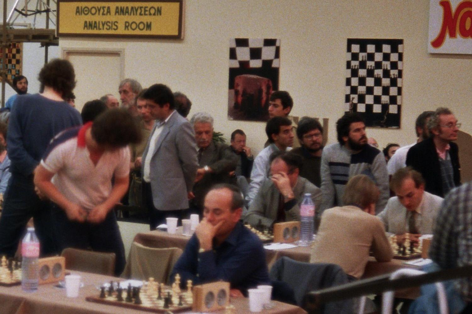 Round 8, table 1, SWE-URS: trouble at board 3 (Tukmakov - Ornstein), Rafael Vaganian, Lev Polugaevsky, Alexander Beliavsky, in front Lajos Portisch. Chess Olympiad 1984 in Thessaloniki, Photographer Gerhard Hund.